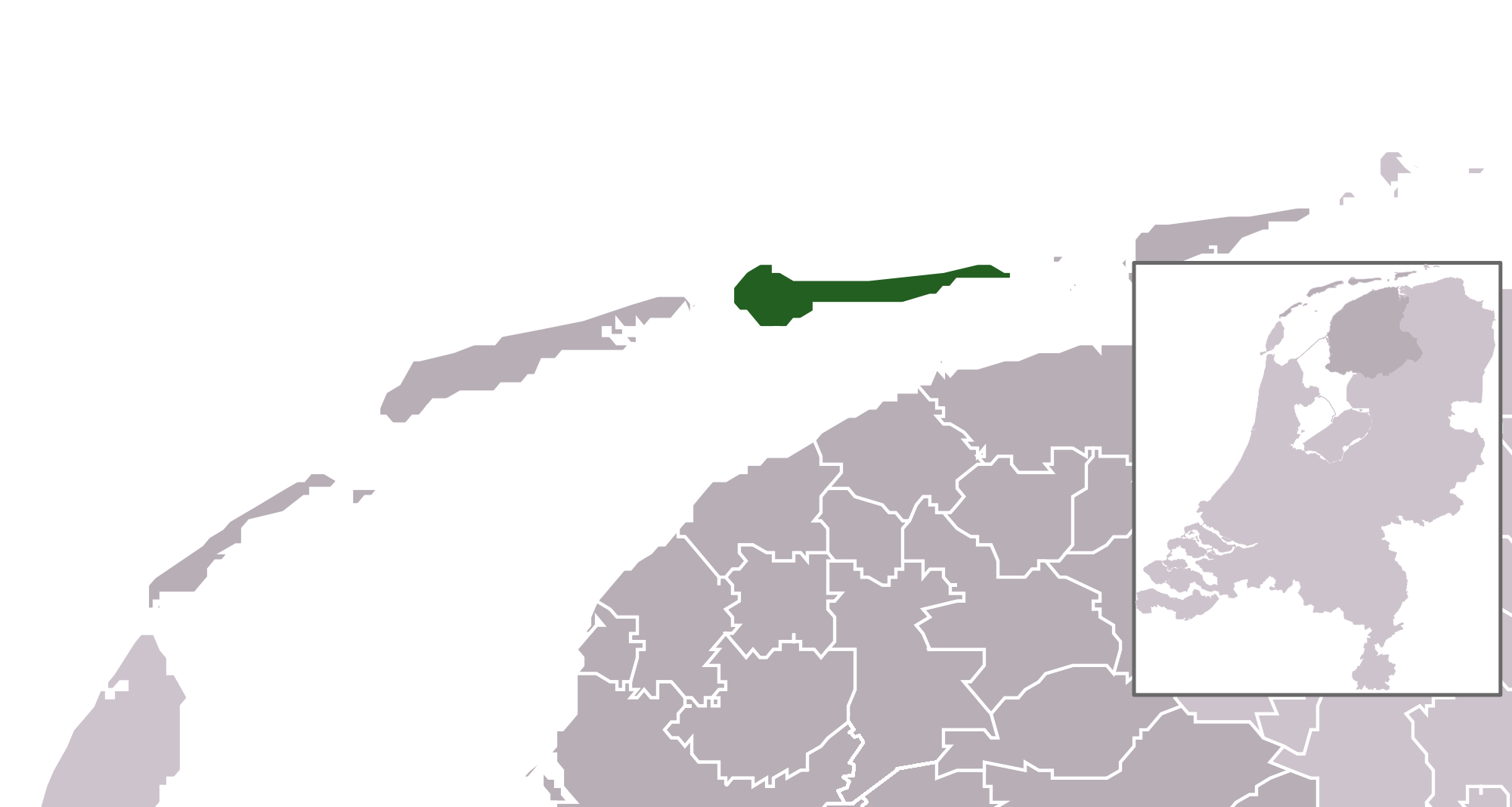 Location maps for the 441 municipalities in the Netherlands. Boundaries 1/1/2009 Automatically generated with script File name contains "Municipality code" (CBS-code) as specified in: [1] Created in svg using coordinate data derived from ESRI data published by Centraal Bureau voor de Statistiek, Voorburg/Heerlen. ([2]) Color coding and original design (slightly adpated by me) by user Mtcv (2006/2007) ([3]) Updated until January 1, 2014 The copyright holder of this file, Centraal Bureau voor de Statistiek, allows anyone to use it for any purpose, provided that the copyright holder is properly attributed. Redistribution, derivative work, commercial use, and all other use is permitted. Attribution: Centraal Bureau voor de Statistiek This work is free and may be used by anyone for any purpose. If you wish to use this content, you do not need to request permission as long as you follow any licensing requirements mentioned on this page.